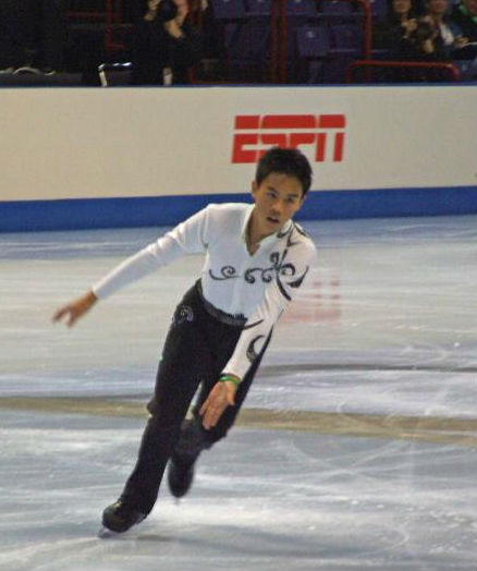 Princeton Kwong 2007 State Farm US Figure Skating Championships